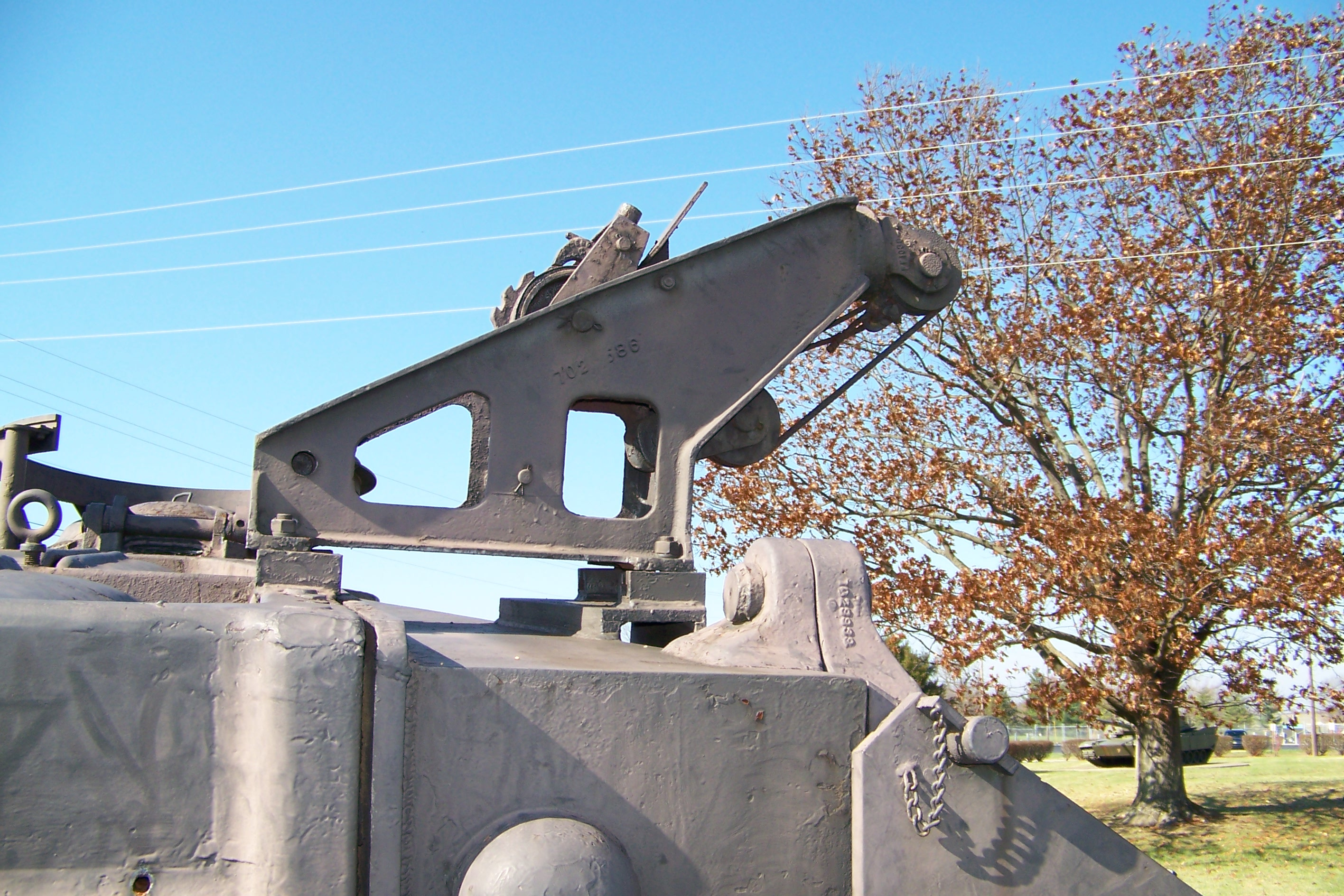 This winch was used to remove/install the outer set of tracks. Patton Museum, Fort Knox, Kentucky